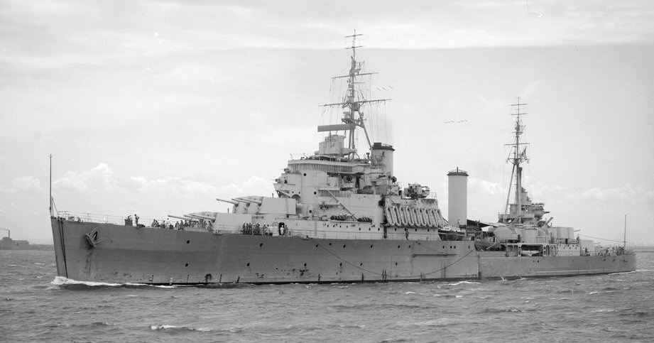 HMS Gambia.